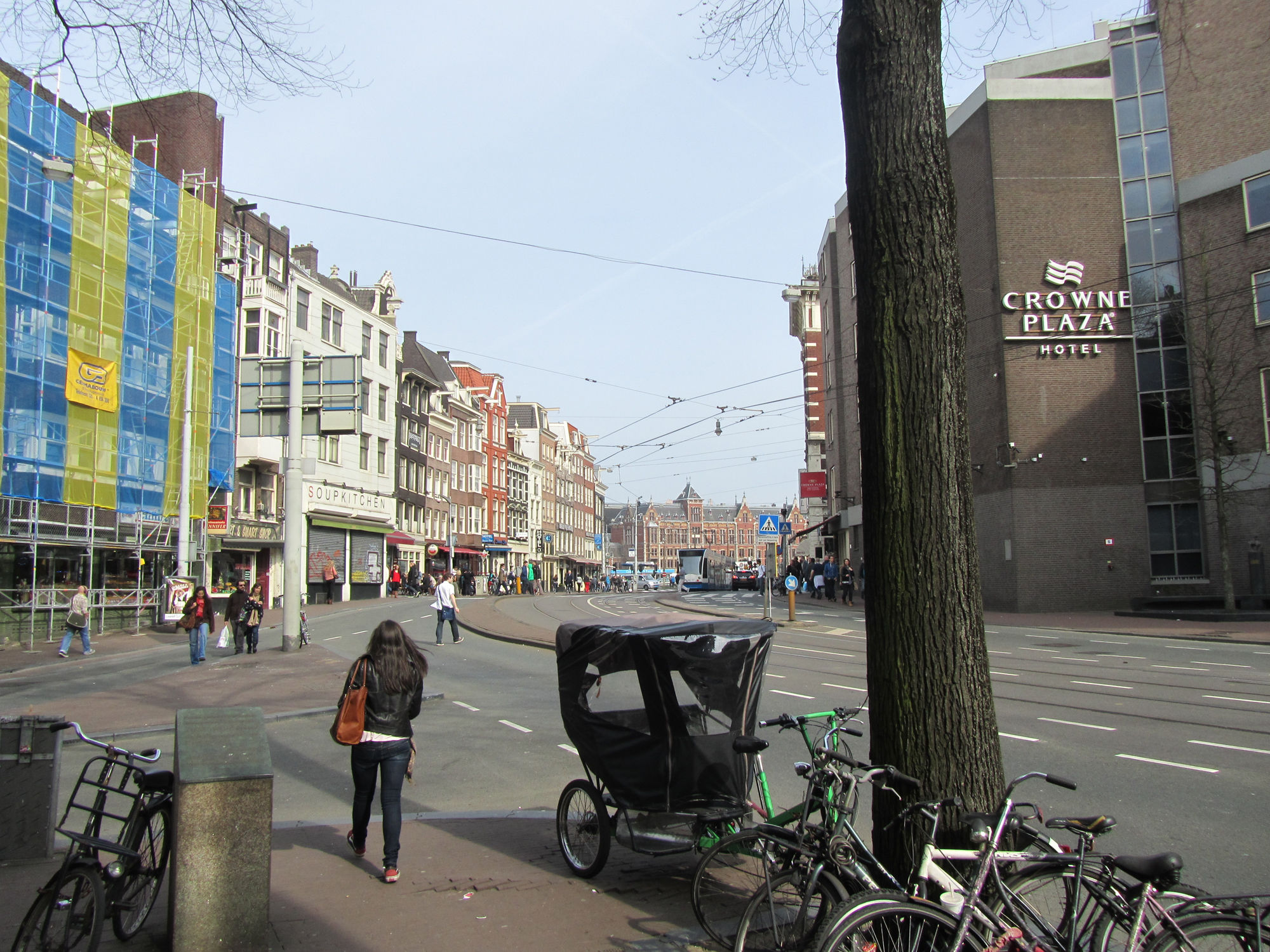 Hekelveld square in Amsterdam, looking northeast. In the distance, Amsterdam Central Station can be seen.